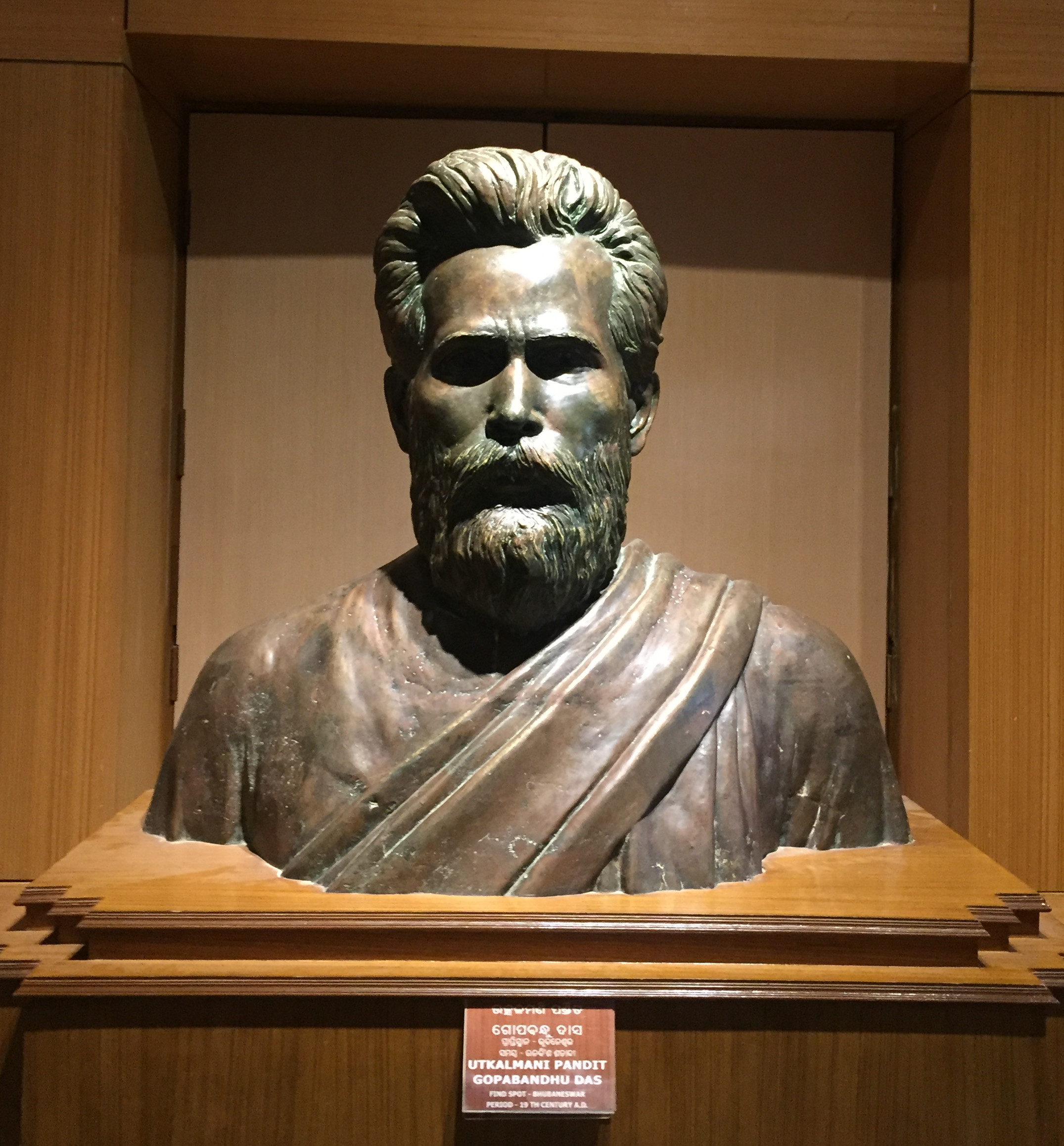 Rock carved or metal carved sculptures in traditional Kalingan or Odia style.